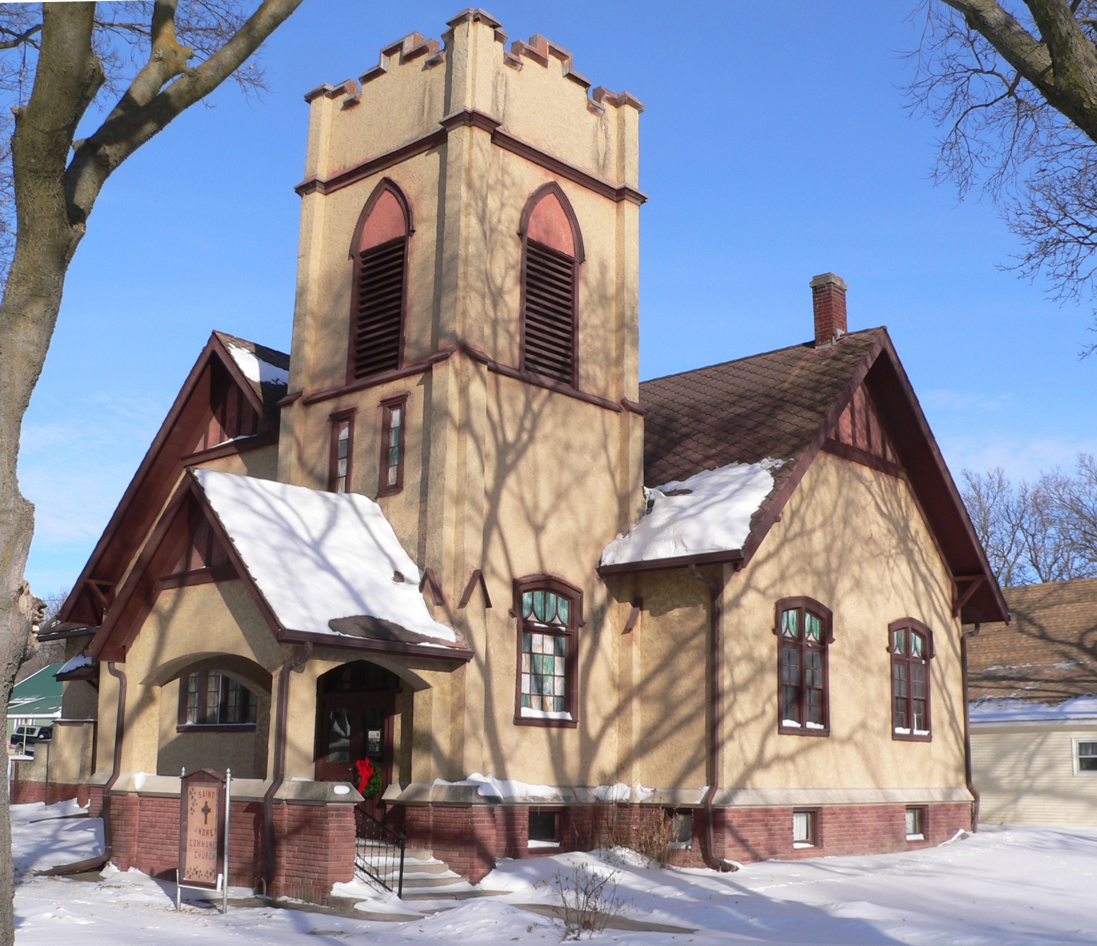 St. Andrew Community Church in Spalding, Nebraska; seen from the southwest. The building was formerly the First Presbyterian Church. It was designed in Tudor Revival style by architects Grabe and Helleberg, and built in 1904. The building is listed in the National Register of Historic Places.